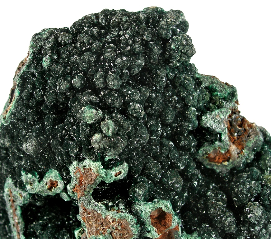 Chalcosiderite Locality: Cornwall, England, UK (Locality at ) Size: 6.8 x 6.1 x 4.8 cm his is a beautiful chalcosiderite specimen, with an intense sparkle and glistening surface, as the thousands of small crystals drape a 3-dimensional matrix plate. The heyday of the mining here was in the mid to late 1800s. From the collection of E.R. Chadbourn, (1855-1920s). See Min Record archives here